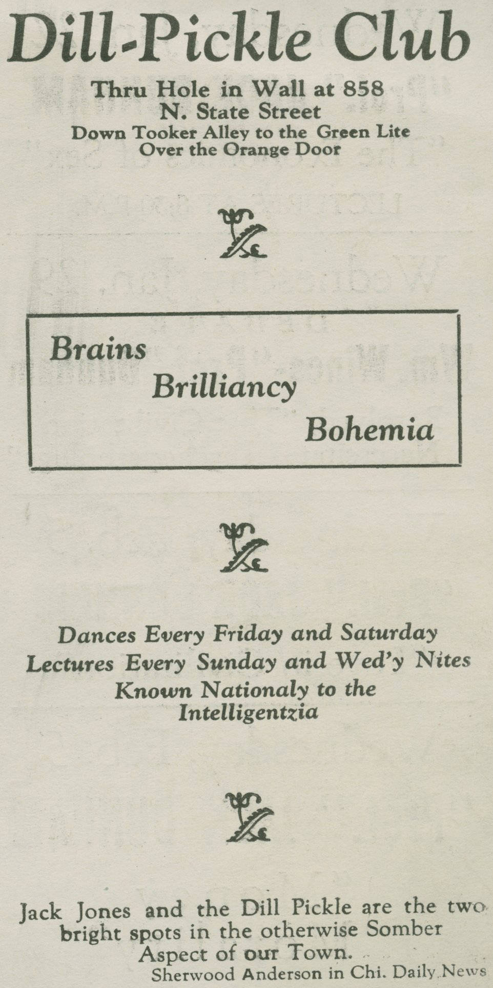 The Dill Pickles (Club) Social Affairs Friday Nites, (1930)